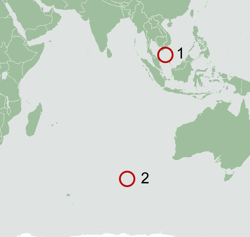 Map of location of satellite images of possible debris from MH370